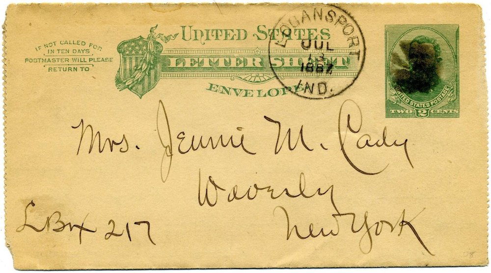 Ulysses S. Grant letter sheet of 1886 showing earliest postmark for this particular issue.